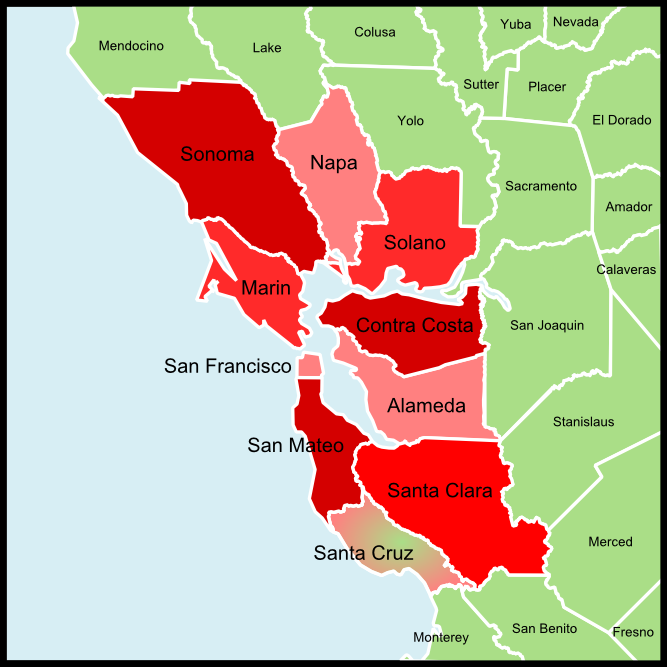 Map of the Counties in the San Francisco Bay Area — in northern California.